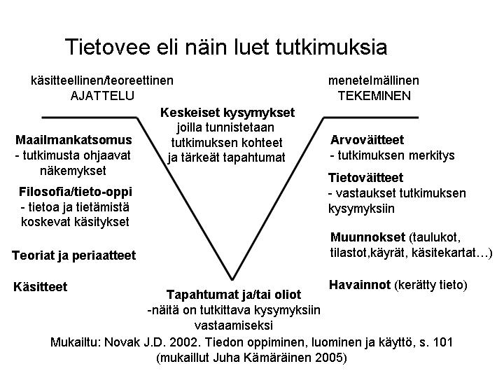 This is my own application of the Joseph D. Novak's "Vee diagram" (see e.g. Novak 1998: "Learning, creating and using knowledge: concept maps as facilitative tools in schools and corporations" as well as Novak and D. Bob Gowin 1984: "Learning how to learn"). The diagram was drawn and the labels were partially developed by myself. The term tietovee ="knowledge vee" was used in the Finnish editions of the books mentioned above.